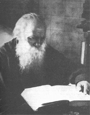 Metropolitan Vasyl (Lypkivskiy) reading a Bible